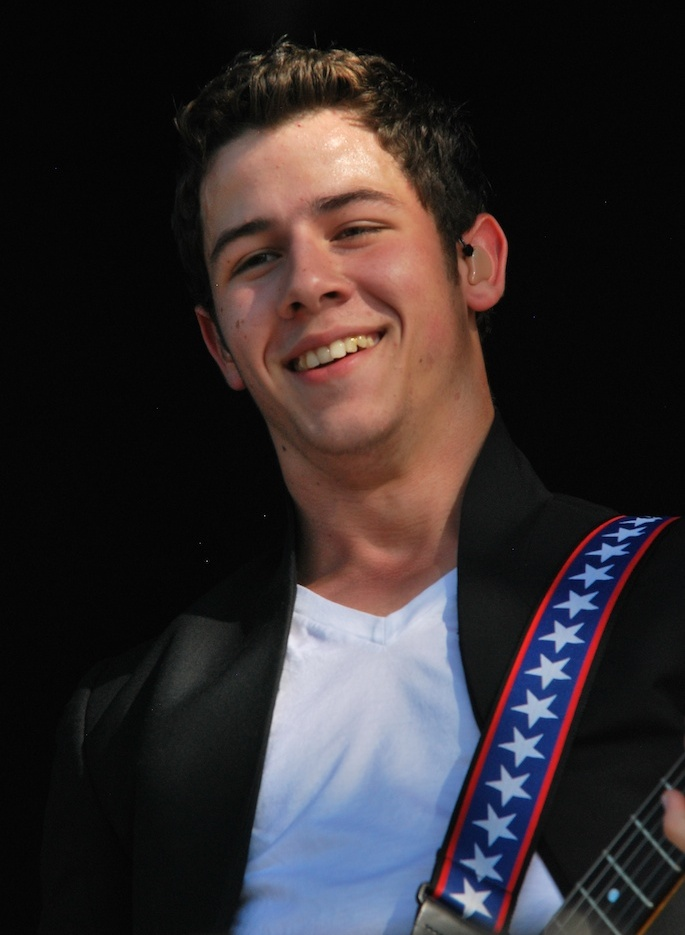 Nick Jonas at the 2011 Cisco Ottawa Bluesfest. Brennan Schnell